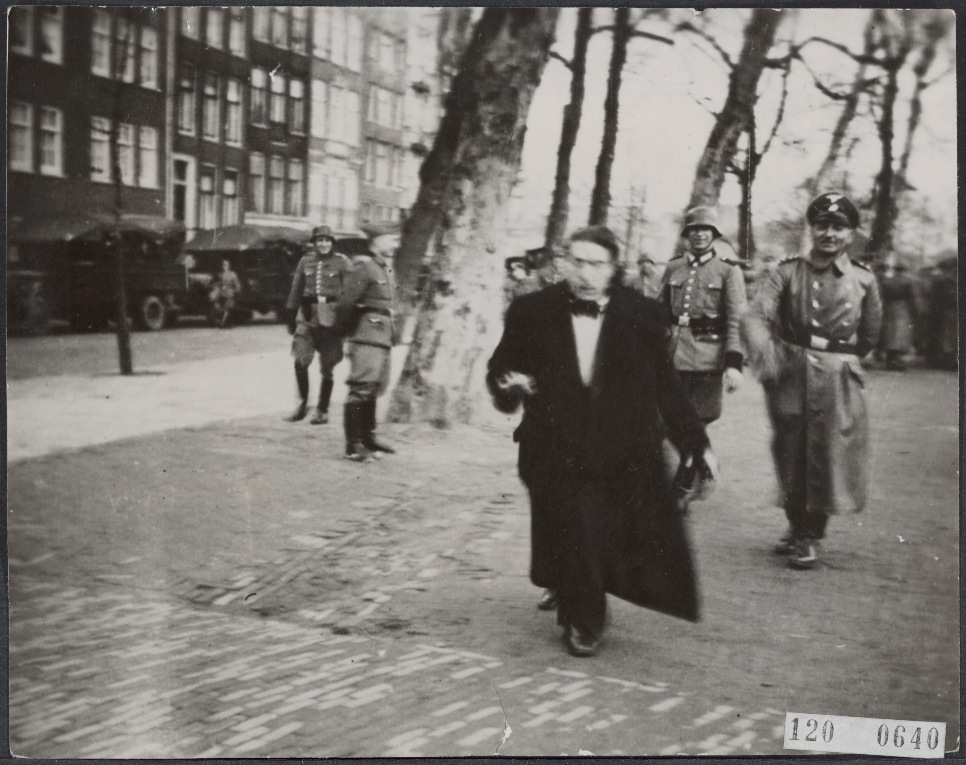 Description on the back: "Smiling Nazis ridicule a civilian as they herd him toward a collecting point for slave workers."